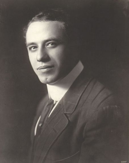 Actor and film director Robert G. Vignola